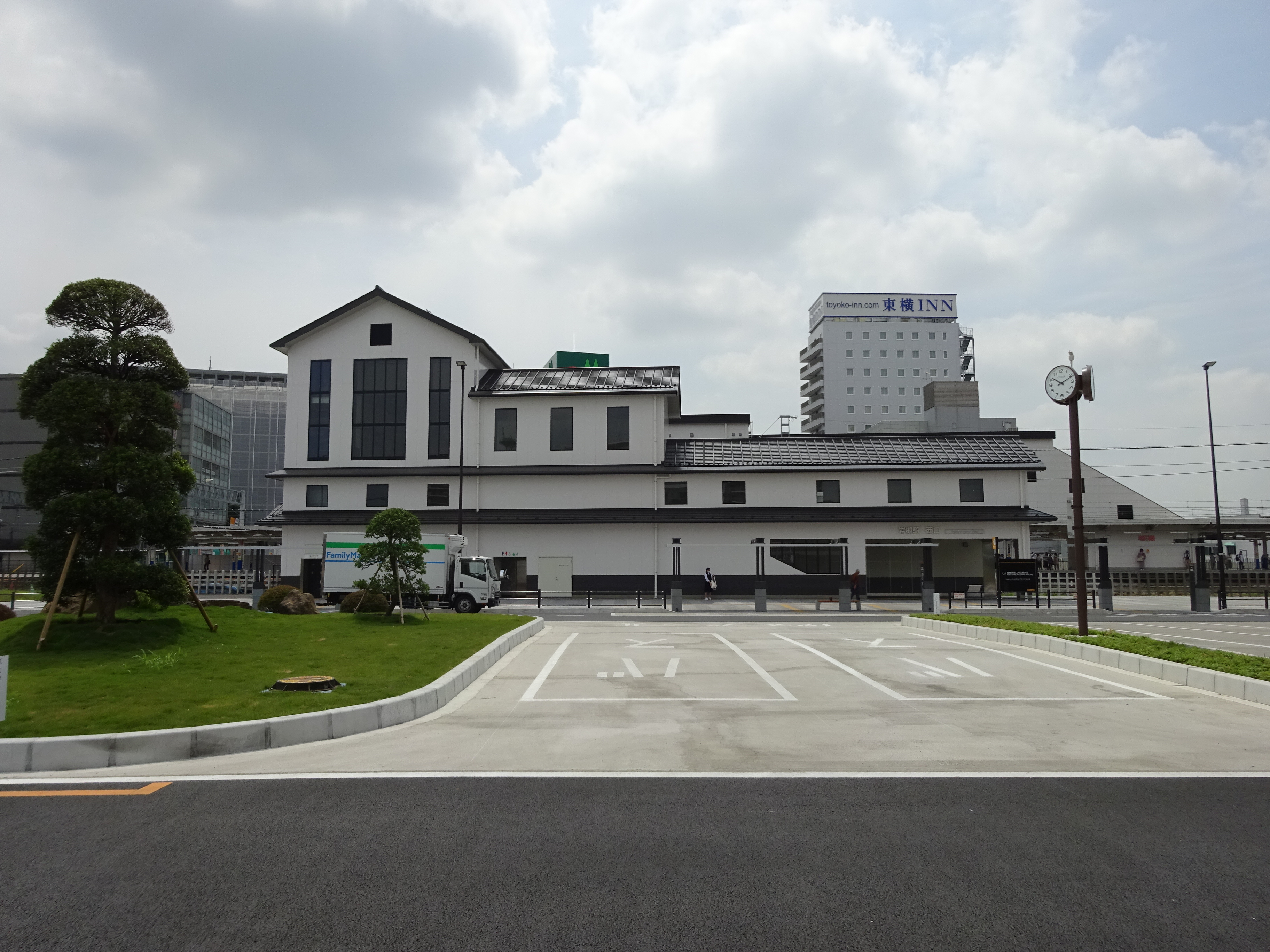 The west entrance to Iwatsuki Station in Saitama Prefecture, Japan